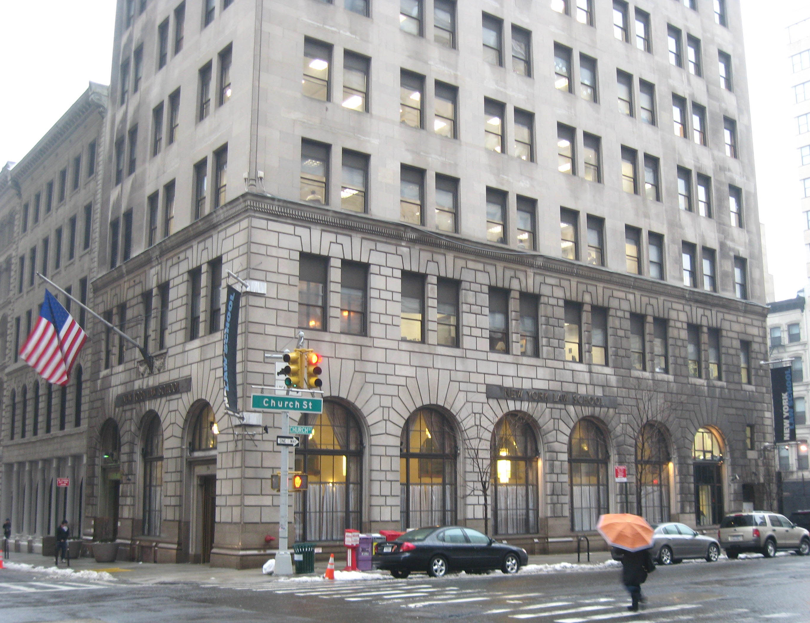 Looking northwest across Church Street at New York Law School on a rainy afternoon.